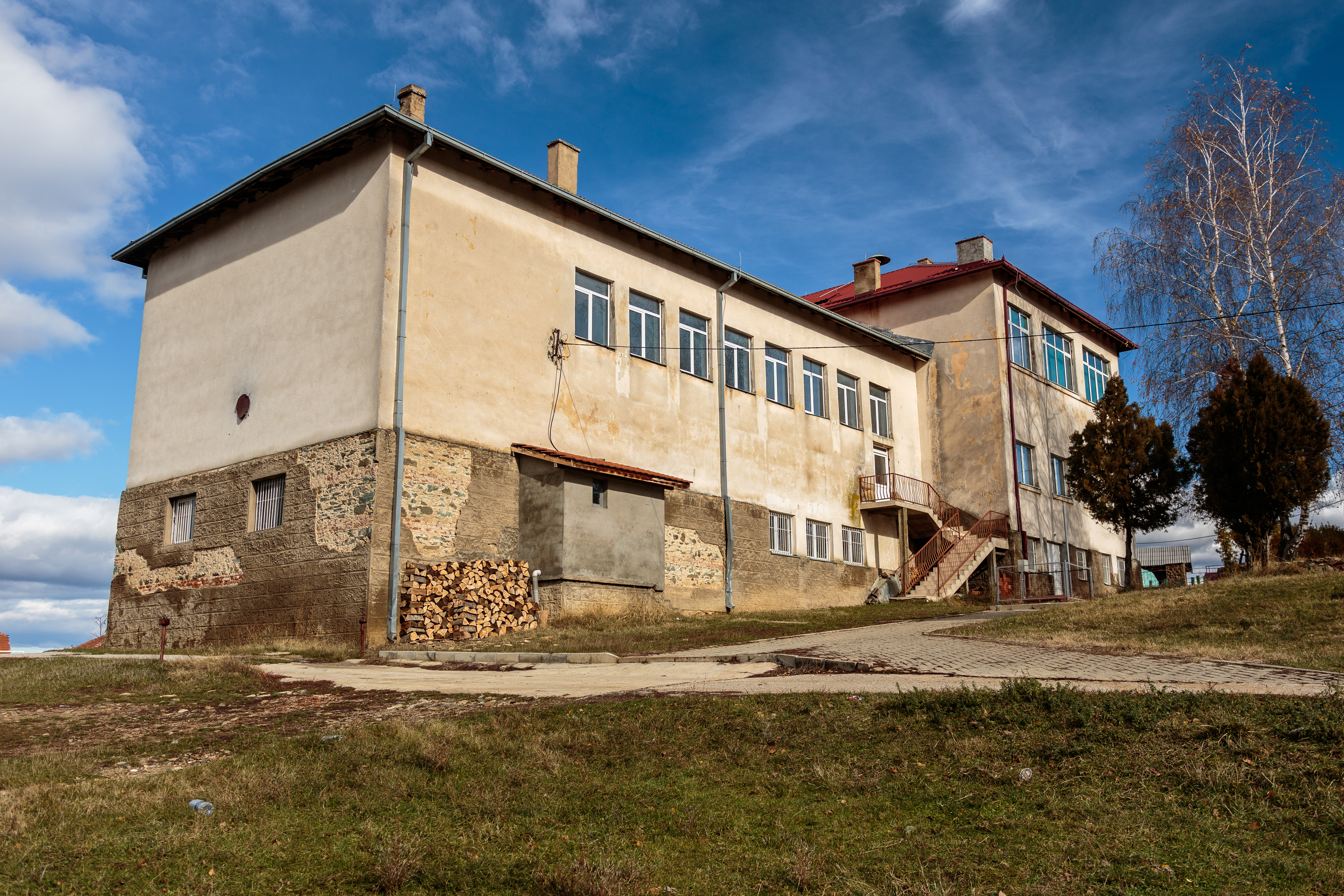 Primary school in the village Rusinovo